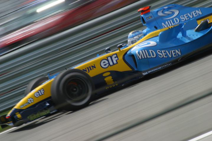 Jarno Trulli driving for Renault F1 at the 2004 United States Grand Prix.